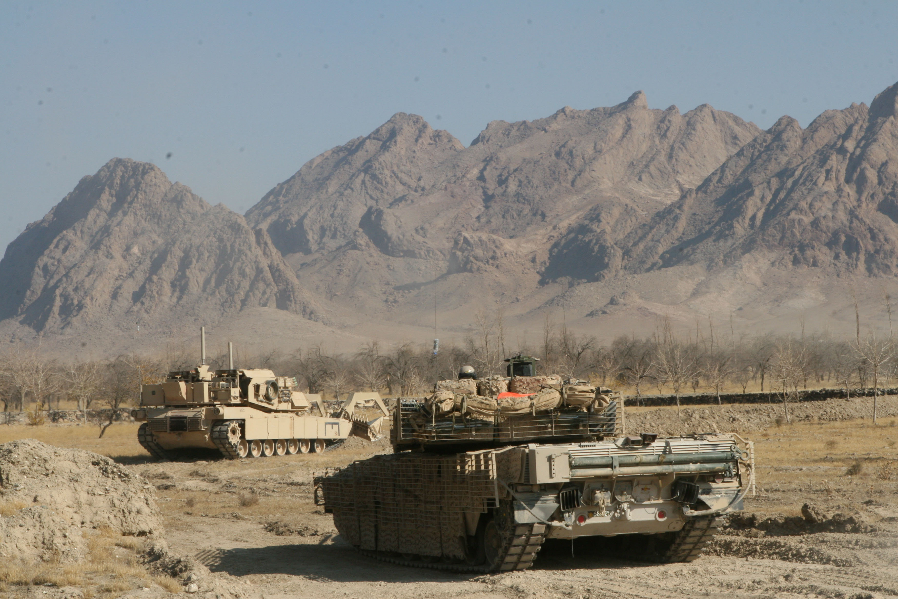 Marines with 2nd Combat Engineer Battalion, conduct combat operations in Now Zad, Afghanistan, during Operation Cobra's Anger, Dec.4, 2009. Operation Cobra's Anger disrupted enemy supply lines and communication in Now Zad, once a safe haven for Taliban forces.